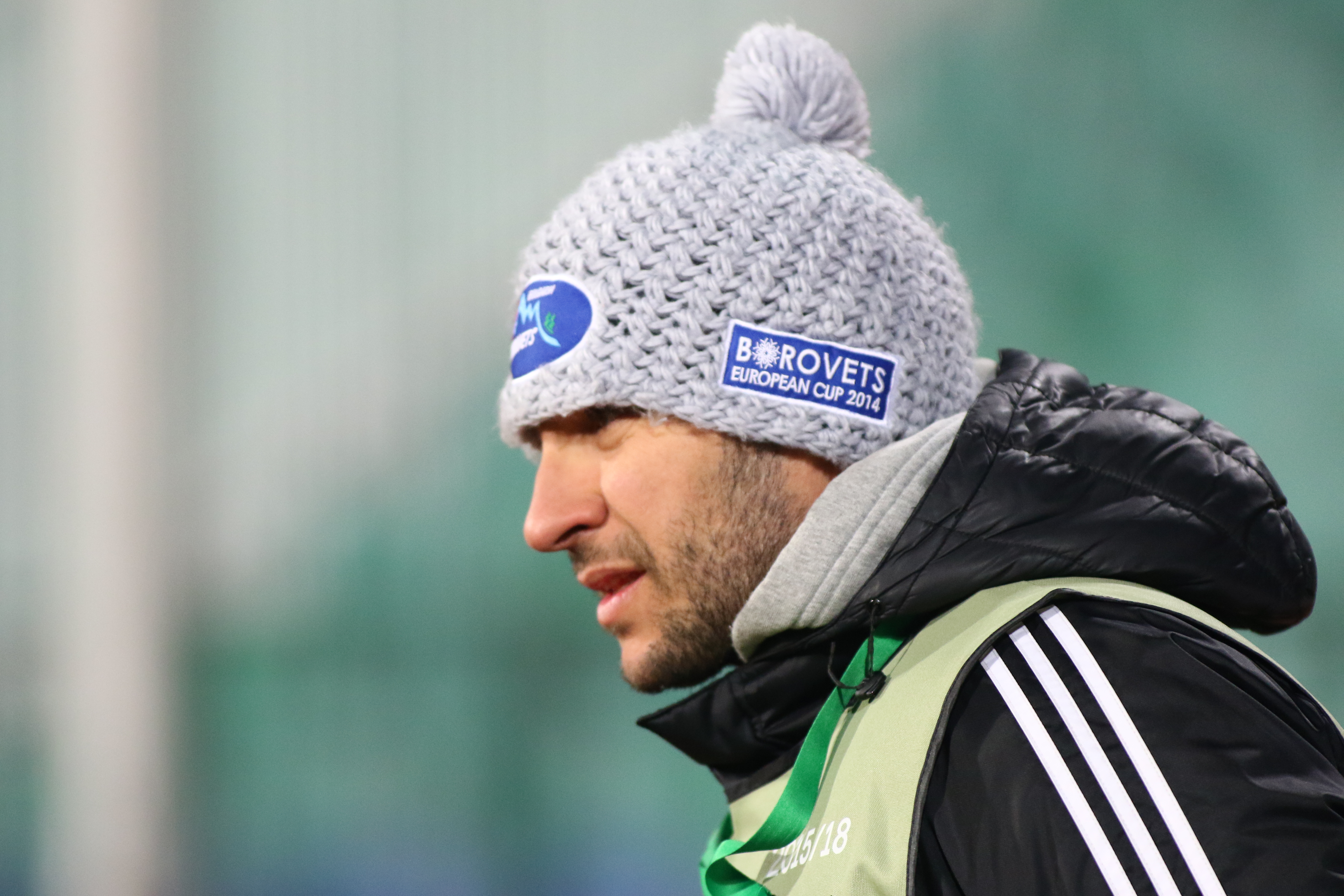 K. Andonov - bulgarian sports photographer